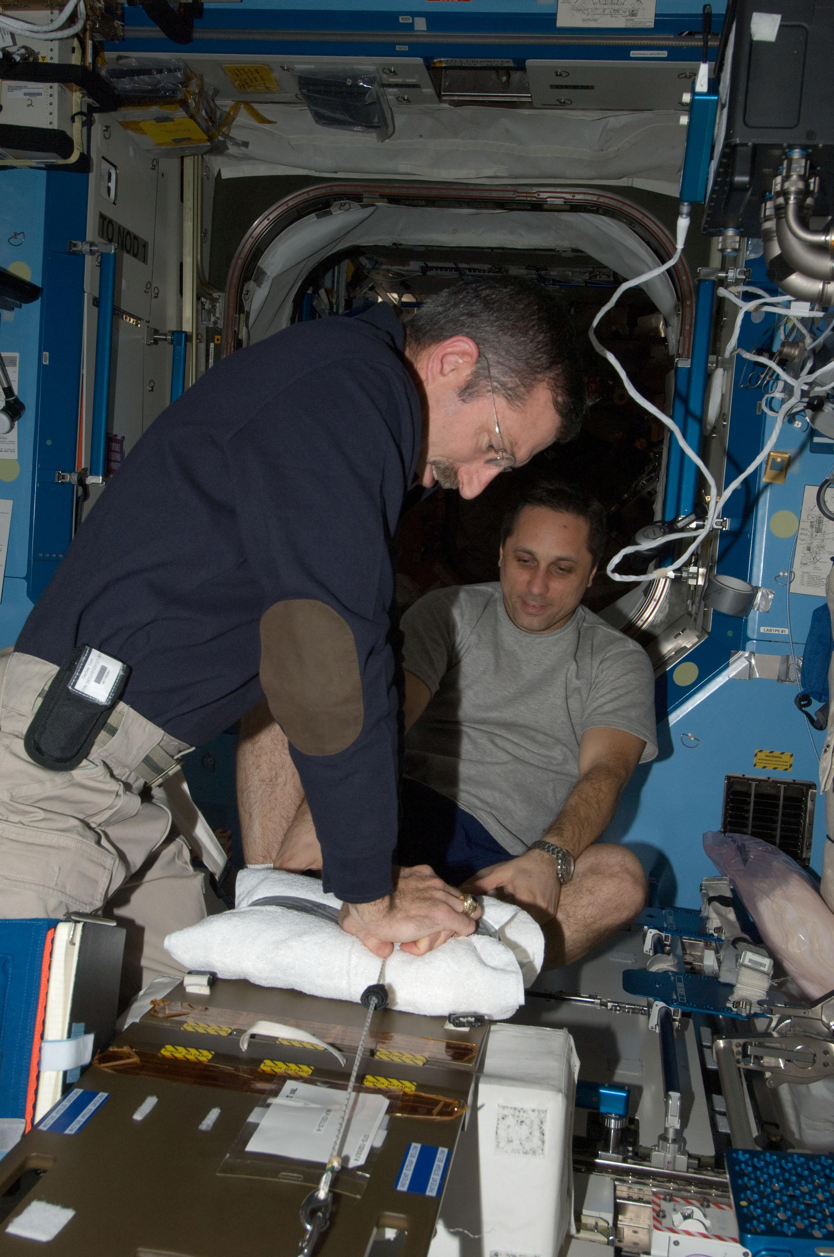 NASA astronaut Dan Burbank (foreground), Expedition 30 commander, and Russian cosmonaut Anton Shkaplerov, flight engineer, participate in a Crew Health Care System (CHeCS) medical contingency drill in the Destiny laboratory of the International Space Station. This drill gives crewmembers the opportunity to work as a team in resolving a simulated medical emergency onboard the space station.